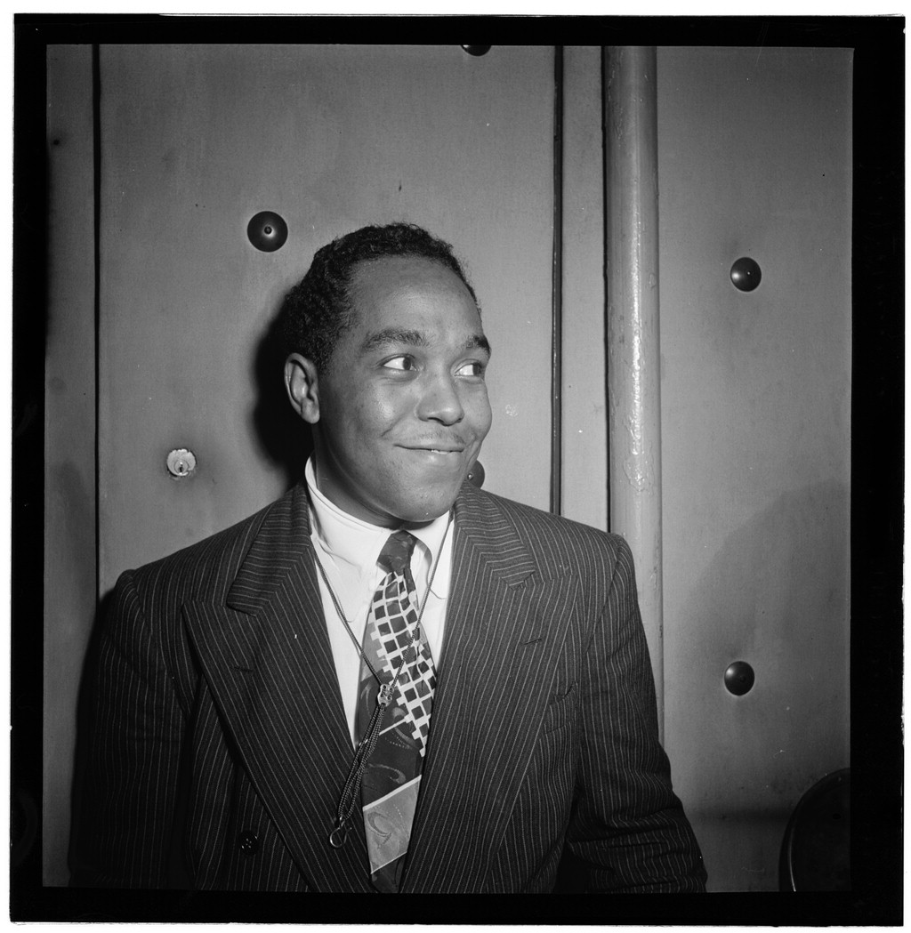 Gottlieb, William P., 1917-, photographer. [Portrait of Charlie Parker, Three Deuces, New York, N.Y., ca. Aug. 1947] 1 negative : b&w ; 2 1/4 x 2 1/4 in. Notes: Gottlieb Collection Assignment No. 434 Reference print available in Music Division, Library of Congress. Purchase William P. Gottlieb Forms part of: William P. Gottlieb Collection (Library of Congress). In: "Despite bad acoustics, Gillespie concert offers some excellent music," Down Beat, v. 14, no. 22 (Oct. 22, 1947), p. 1. Subjects: Parker, Charlie, 1920-1955 Jazz musicians--1940-1950. Saxophonists--1940-1950. Fifty-second Street (New York, N.Y.)--1940-1950. Three Deuces Format: Portrait photographs--1940-1950. Film negatives--1940-1950. Rights Info: Mr. Gottlieb has dedicated these works to the public domain, but rights of privacy and publicity may apply. Repository: (negative) Library of Congress, Prints & Photographs Division, Washington D.C. 20540 USA, (reference print) Library of Congress, Music Division, Washington D.C. 20540 USA, Part Of: William P. Gottlieb Collection (DLC) 99-401005 General information about the Gottlieb Collection is available at Persistent URL: Call Number: LC-GLB23- 0688 This work is from the William P. Gottlieb collection at the Library of Congress. Rights and restrictions.In accordance with the wishes of William Gottlieb, the photographs in this collection entered into the public domain on February 16, 2010.